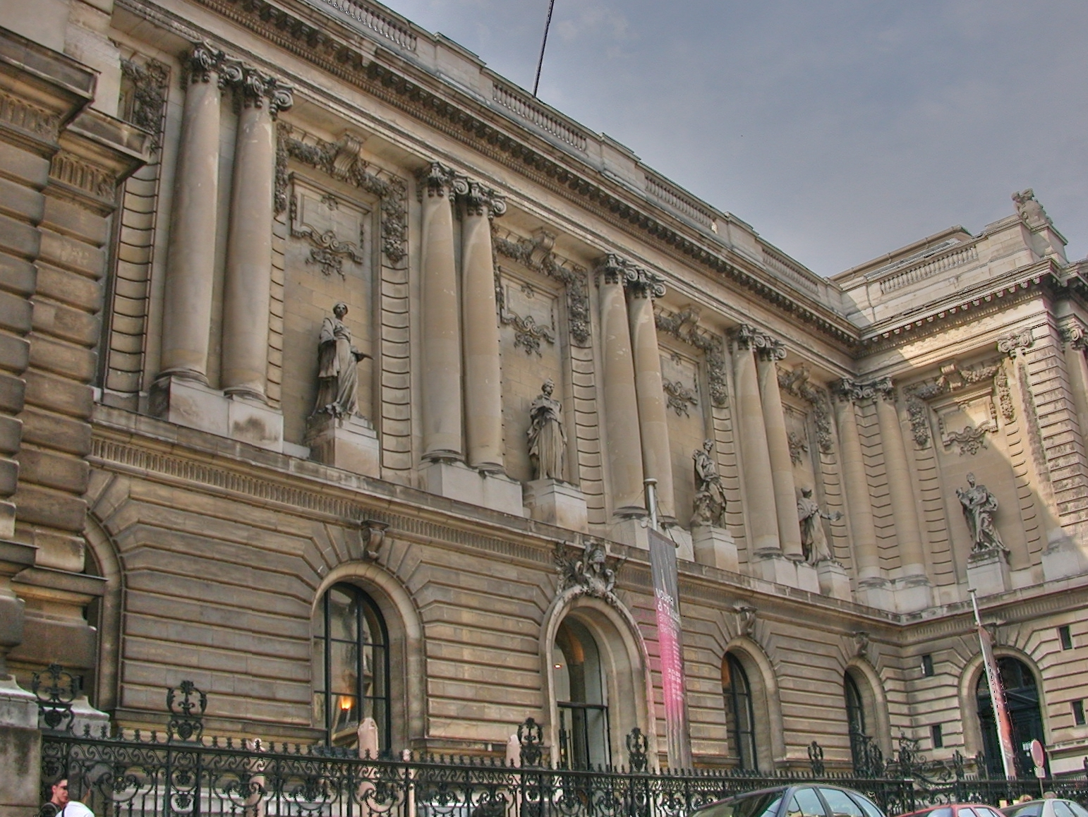 Façade of the Nantes Museum of Fine Arts